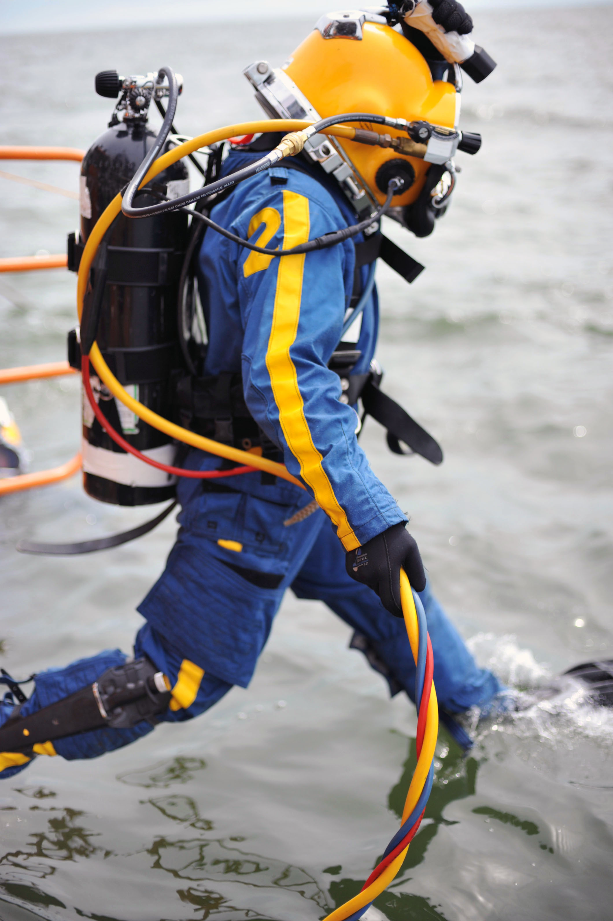 Navy Diver 2nd Class Jeremy Weber, assigned to Mobile Diving and Salvage Unit 2, dives into Africa's Lake Victoria during a search and recovery operation being conducted by Combined Joint Task Force-Horn of Africa and the government of Uganda.